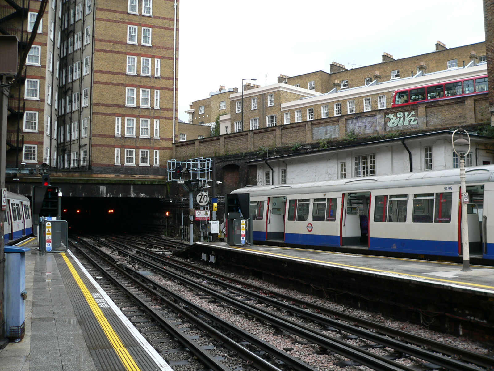 The country end of the Metropolitan Line platforms at London Underground's Baker Street station. A-stock trains stand with their doors open in platforms 1 (left) and 4 on 24 October 2005.